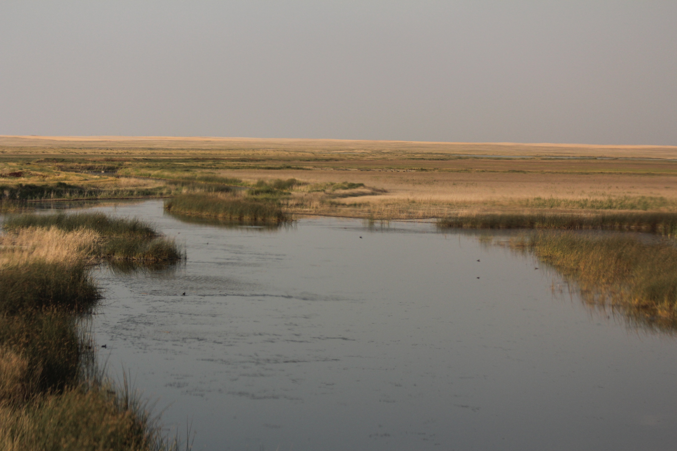 A lake with wildlife while traveling on the train tracks through Bowdoin National Wildlife Refuge.